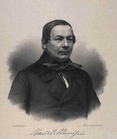 Knud Lausten Knudsen (1806-1866), Danish politician, MP